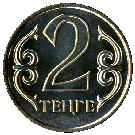 Coin of Kazakhstan